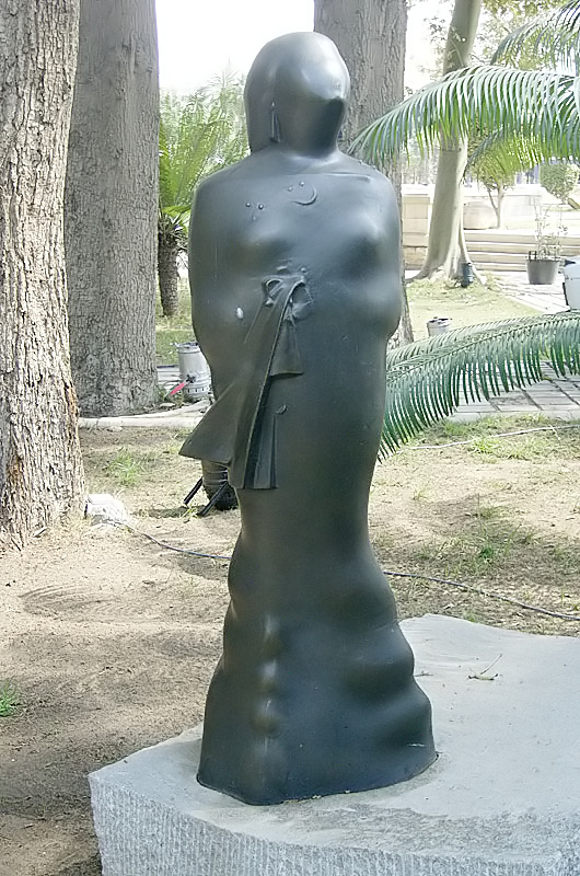 Umm Kulthum memorial near the nilometer, Roda island, Cairo, Egypt. The sculpture was created by the Egyptian artist Adam Henien in 2003.